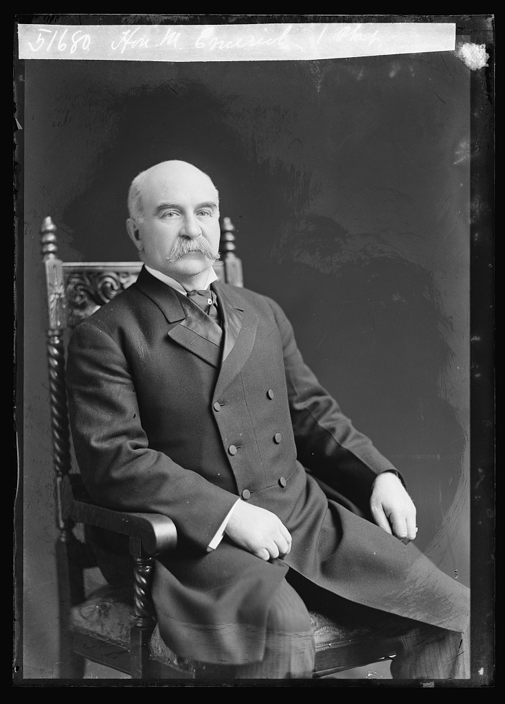 Martin Emerich photographed by C M Bell Studio